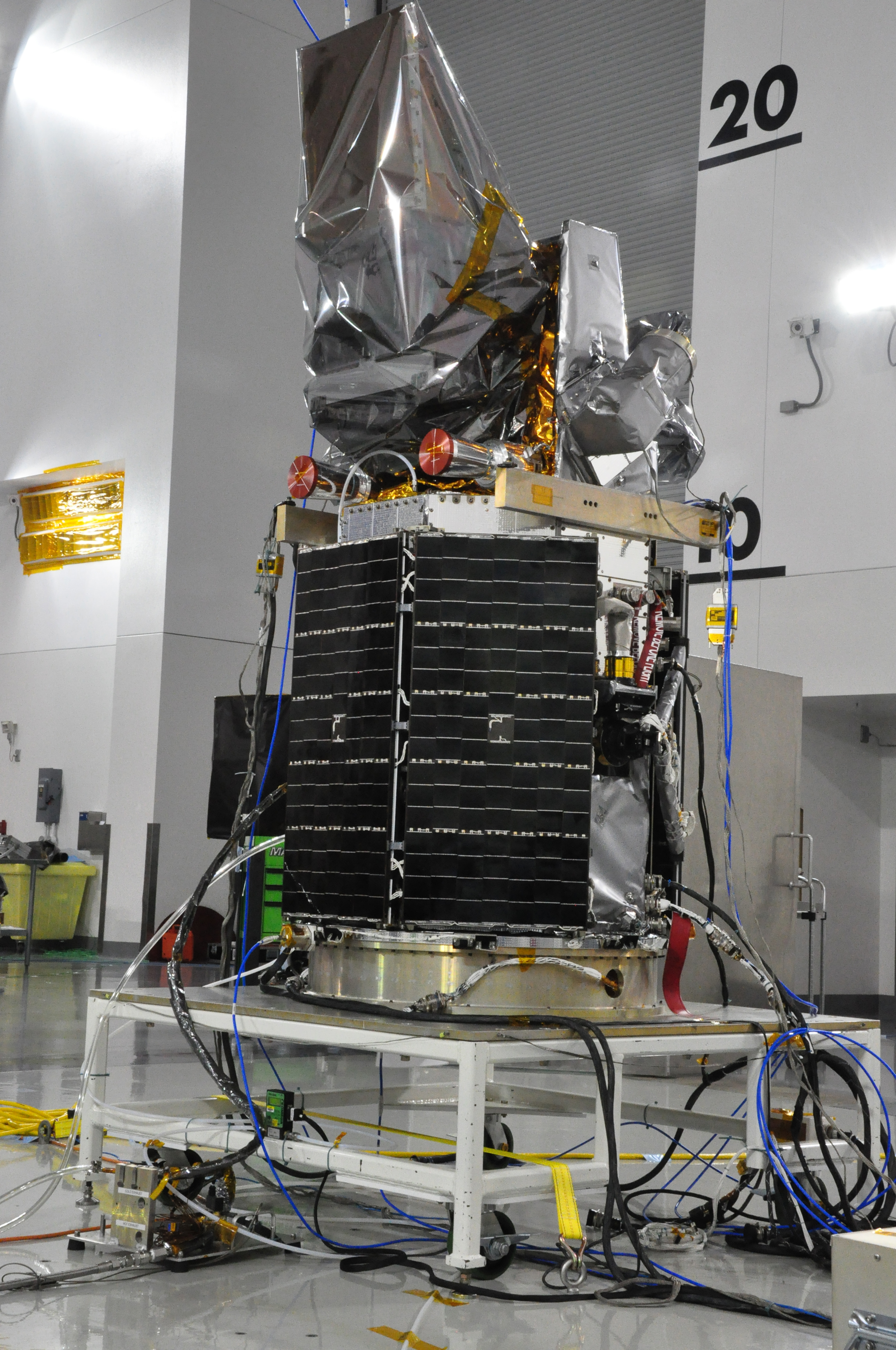 VANDENBERG AIR FORCE BASE, Calif. -- The solar arrays of NASA's Glory spacecraft will be uncovered and illuminated in the Astrotech payload processing facility at Vandenberg Air Force Base in California. The spacecraft will be processed for flight, encapsulated in its protective payload fairing, and then transported to Space Launch Complex 576-E where is will be joined with the third stage of the Orbital Sciences Corp. Taurus XL rocket. Once Glory reaches orbit, it will collect data on the properties of aerosols and black carbon. It also will help scientists understand how the sun's irradiance affects Earth's climate. Launch is scheduled for 5:09 a.m. EST Feb. 23. For information, visit